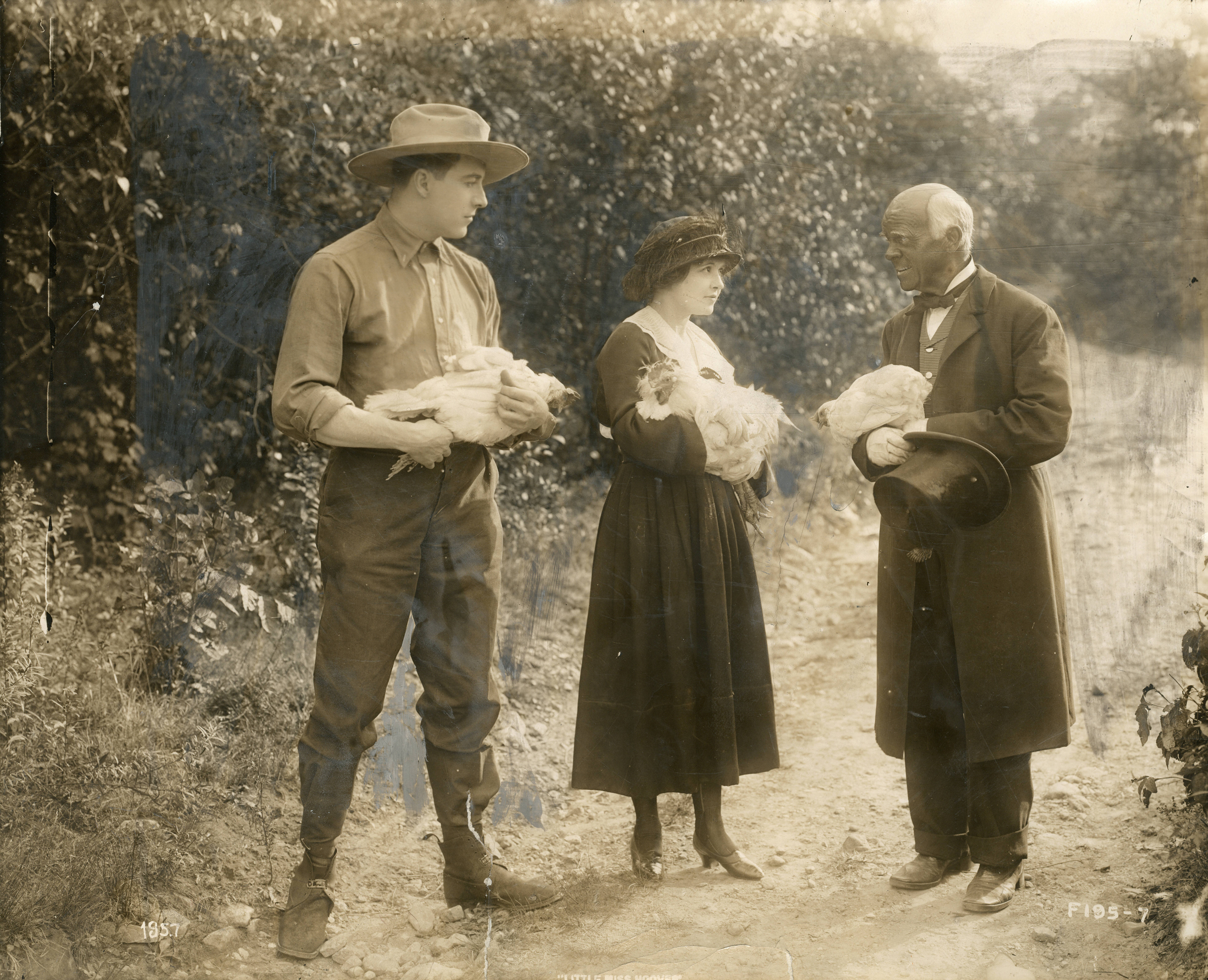 A scene from the American film Little Miss Hoover (1918).